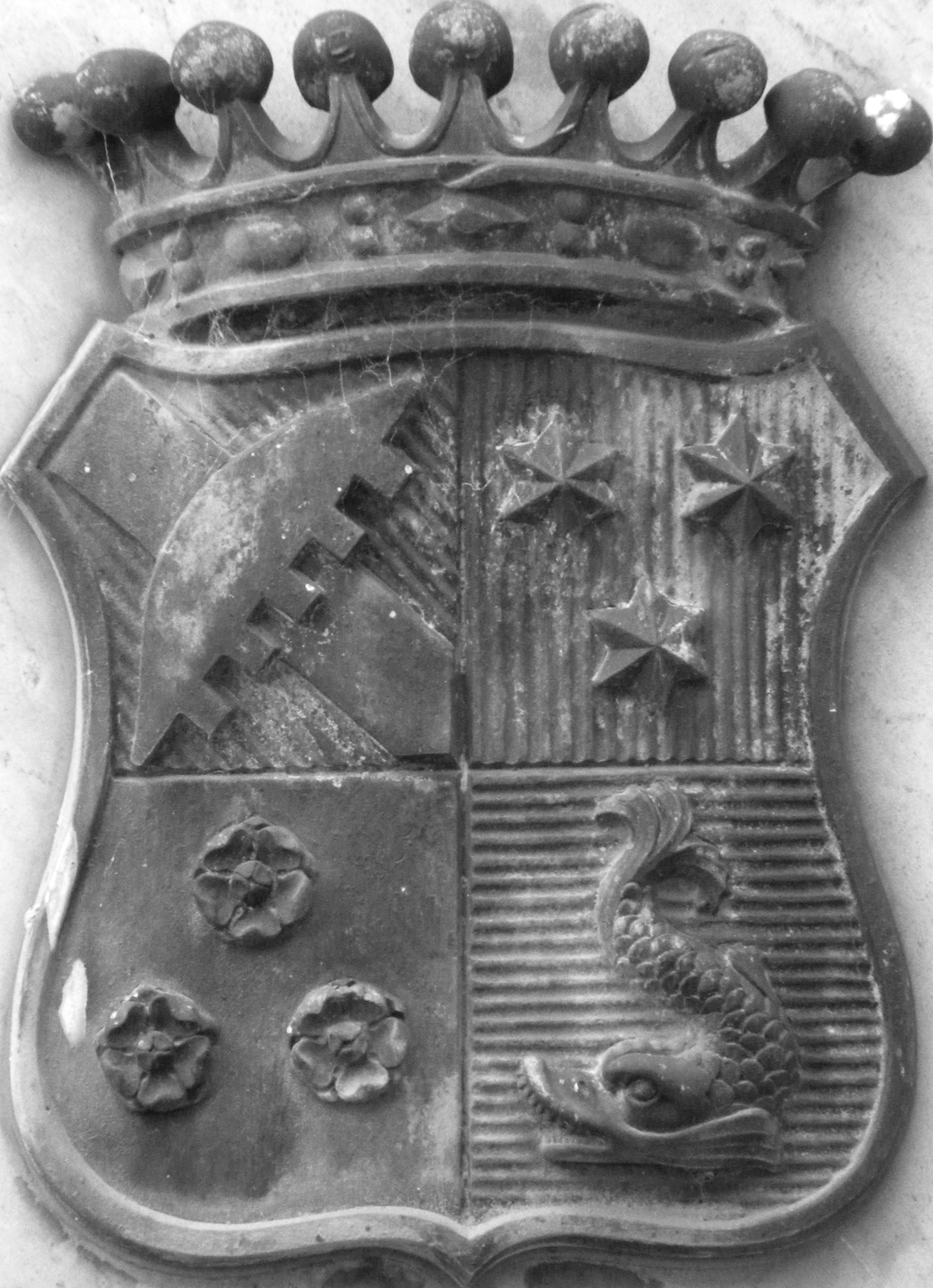 Coat of arms of Isabelle von Tiefenbach (1841 - 1842). Gravestone at the church in Oberlaa, Vienna. Inscription: "ISABELLE, JOSEPHINE, // CAROLINE, MARIE, FRANZISKA // GRÄFIN VON TIEFENBACH // geboren den 7ten July 1841 // gestorben den 28ten September 1842 // Wiedersehn unser einziger Trost!".